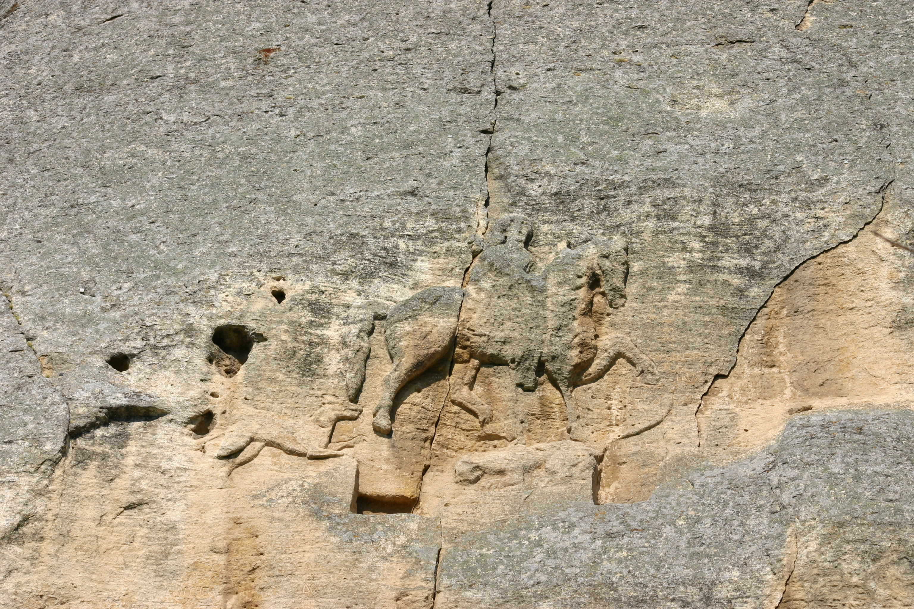 Rider from Madara in bulgaria